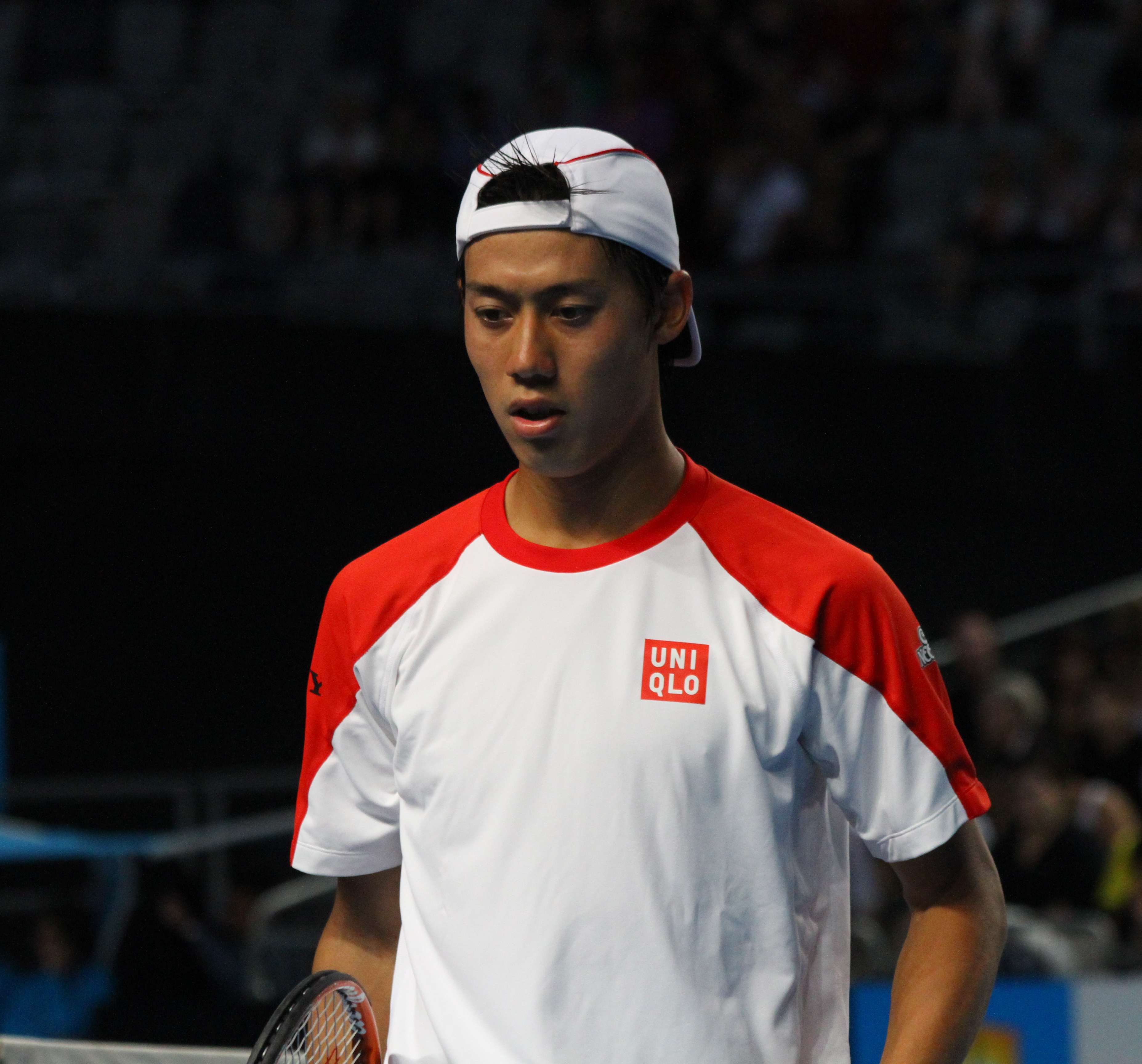 Kei Nishikori v Verdasco at the Australian Open